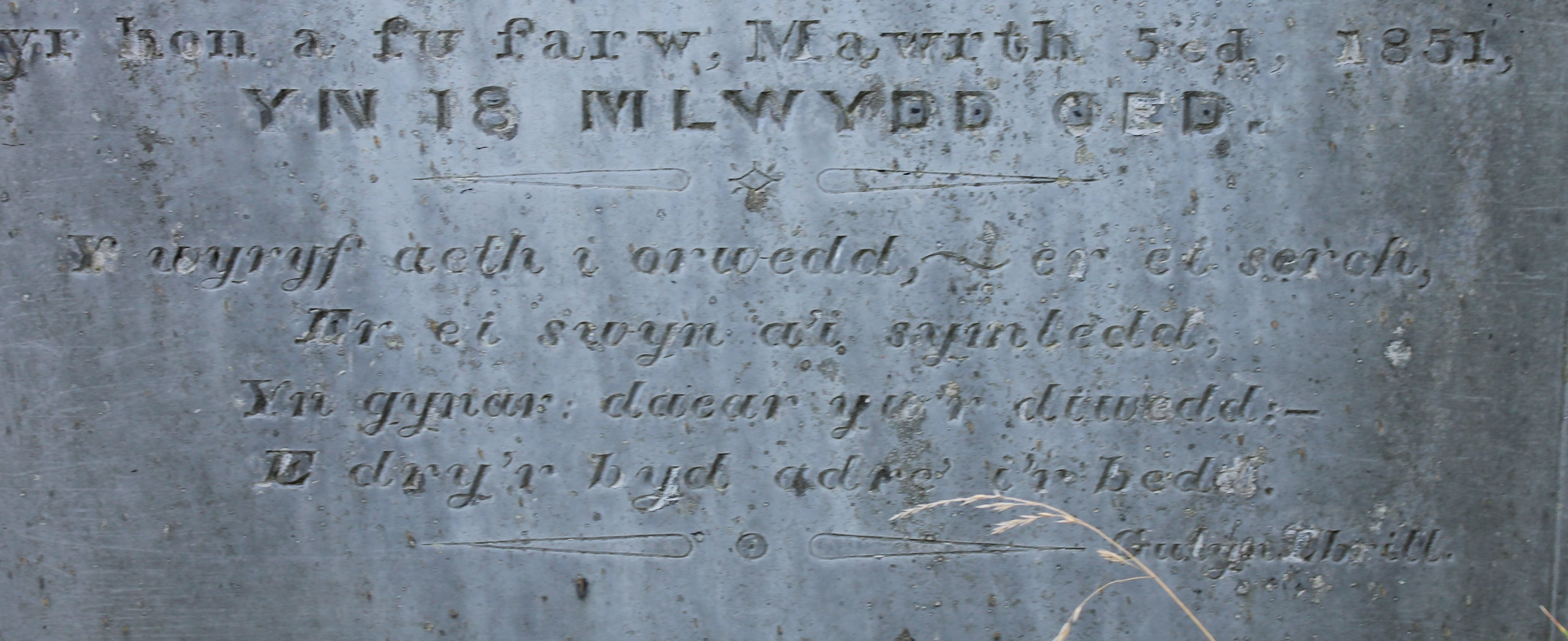 St. Cywair, Llangywer, Bala, Gwynedd.